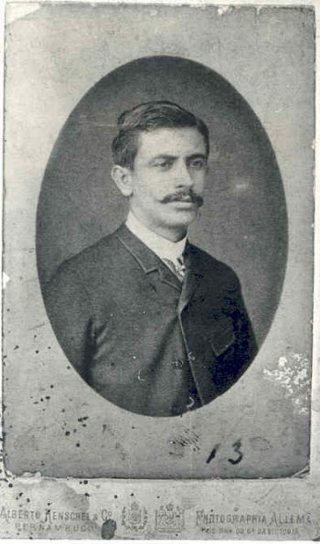 Depicted person: Delmiro Augusto da Cruz Gouveia